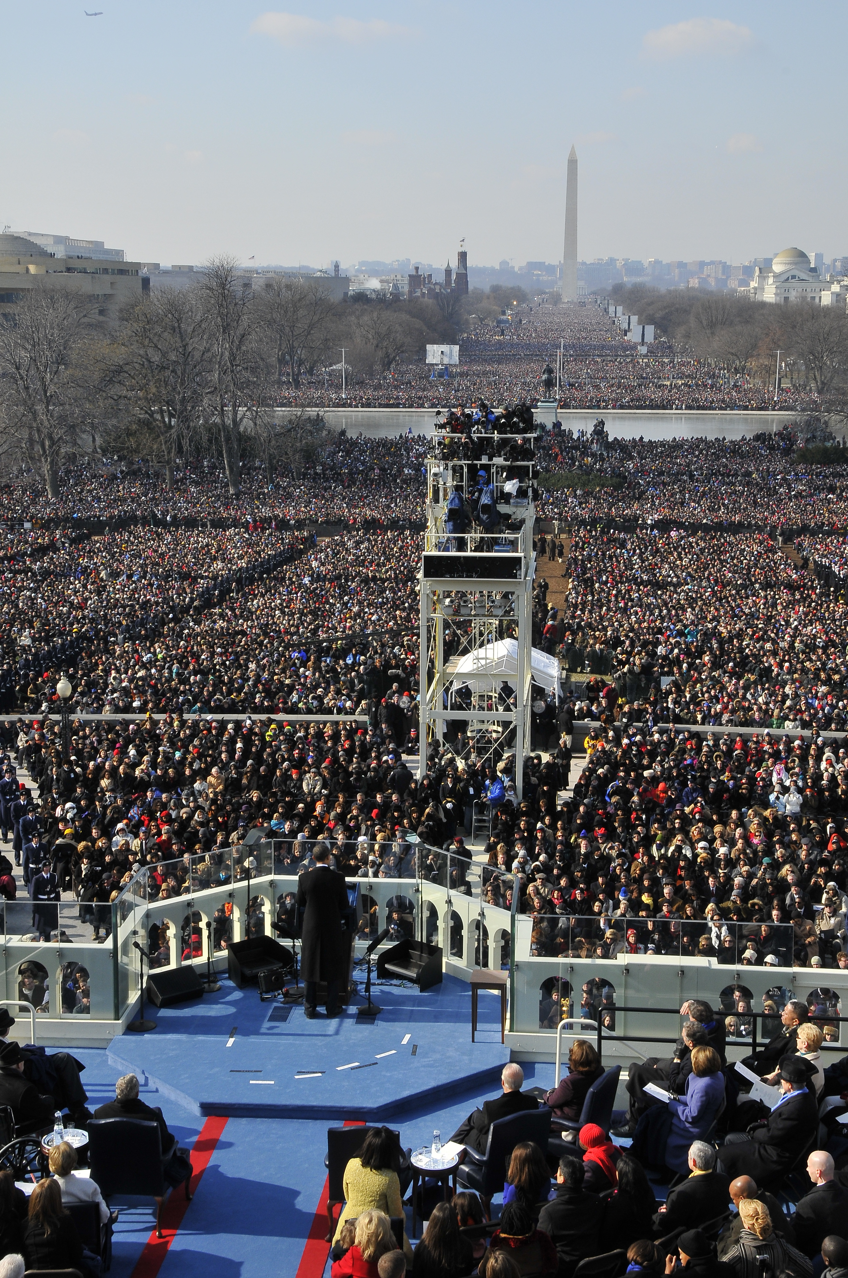 President Barack Obama gives his inaugural address to a worldwide audience from the West Steps of the U.S. Capitol after taking the oath of office in Washington, D.C., Jan. 20, 2009